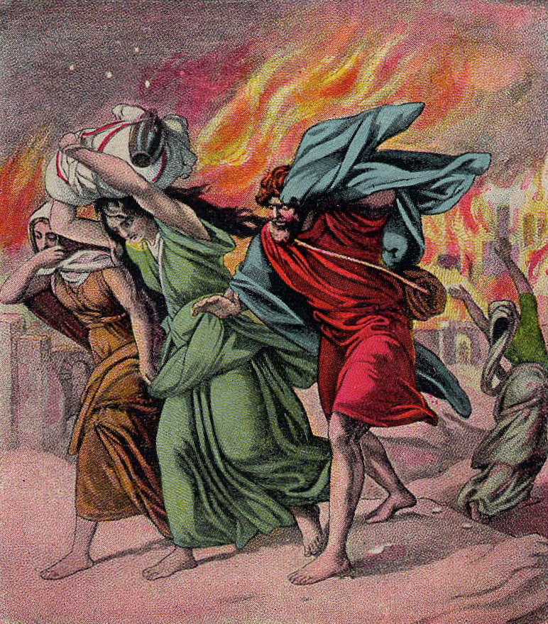 Lot and his daughters flee Sodom, as in Genesis 19:17, illustration from "Sunrays" published 1908 by the Providence Lithograph Company